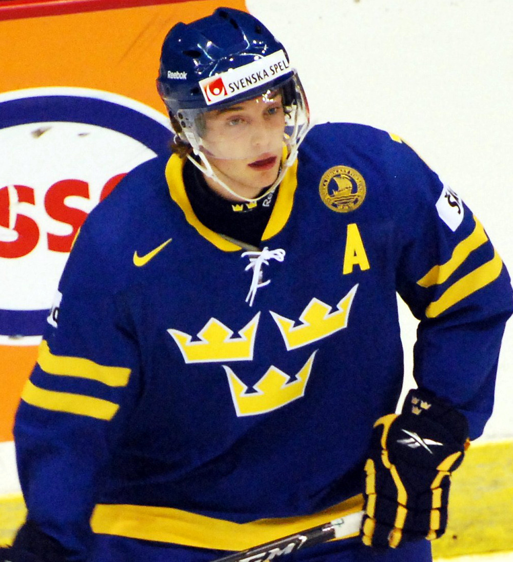 David Rundblad during the 2010 IIHF World Junior Ice Hockey Championship in Canada.